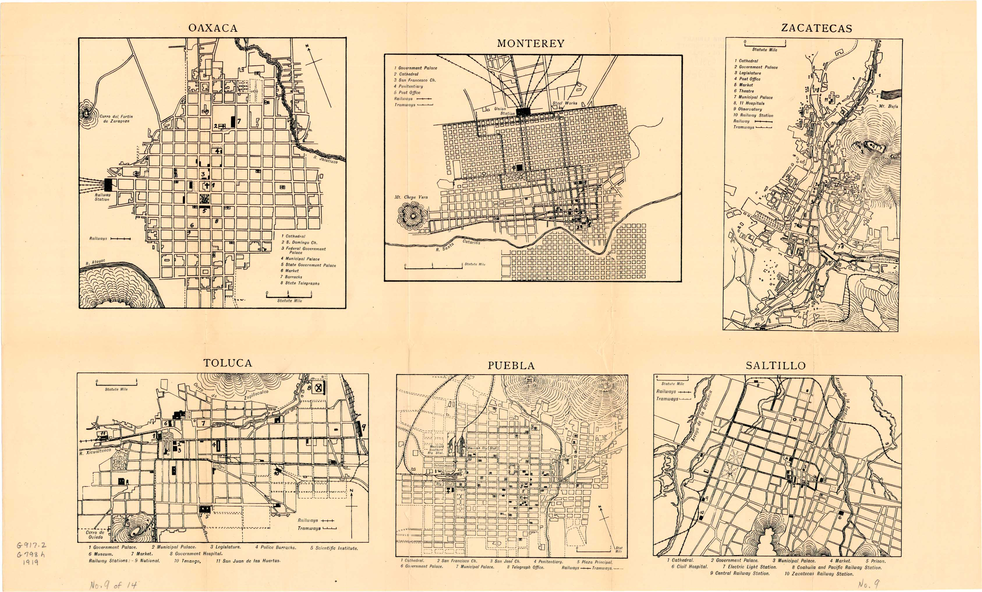 Plans of Inland Towns: Oaxaca, Monterey, Puebla, Saltillo, Toluca, Zacatecas (1919)